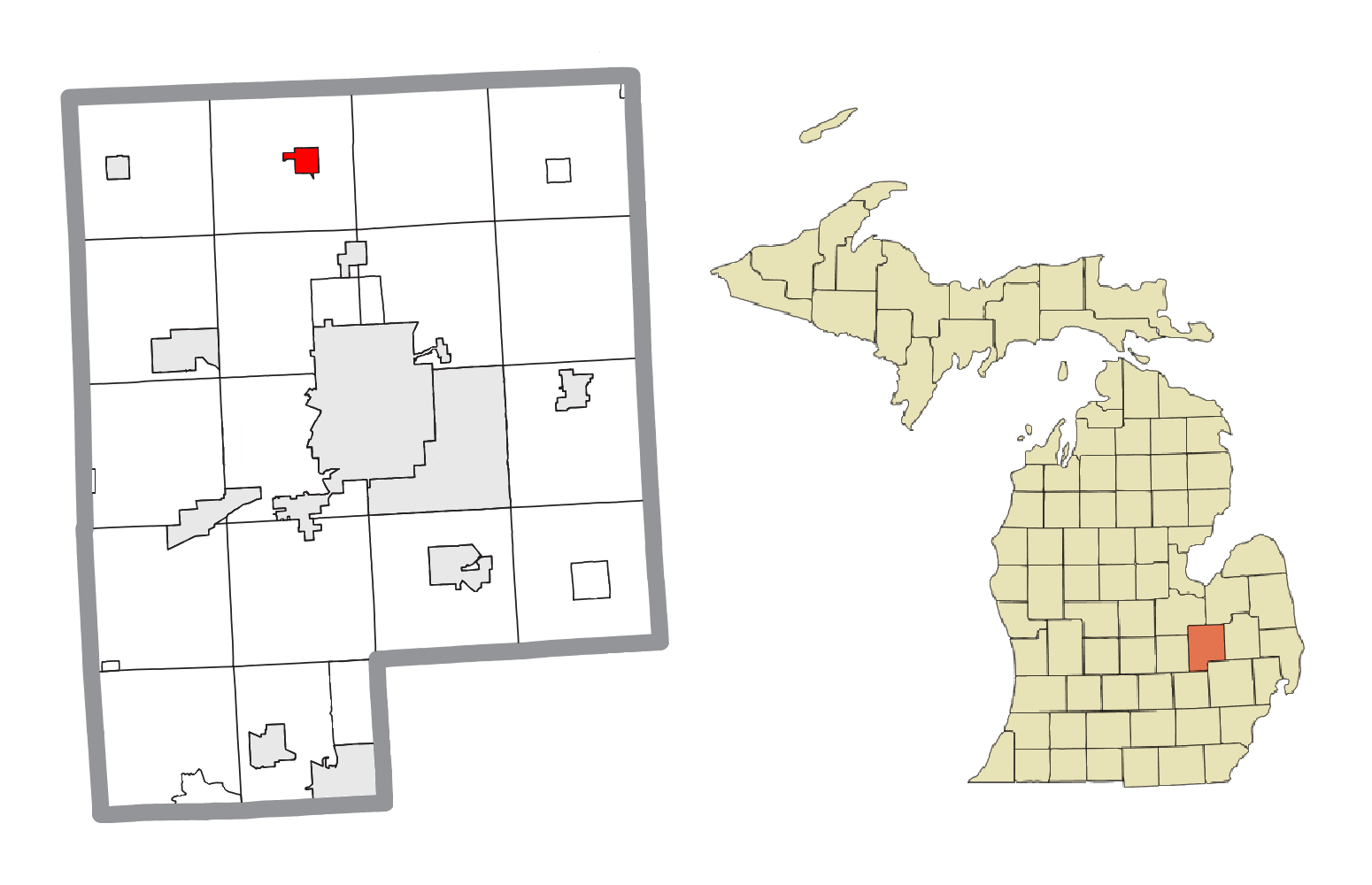 Clio, MI